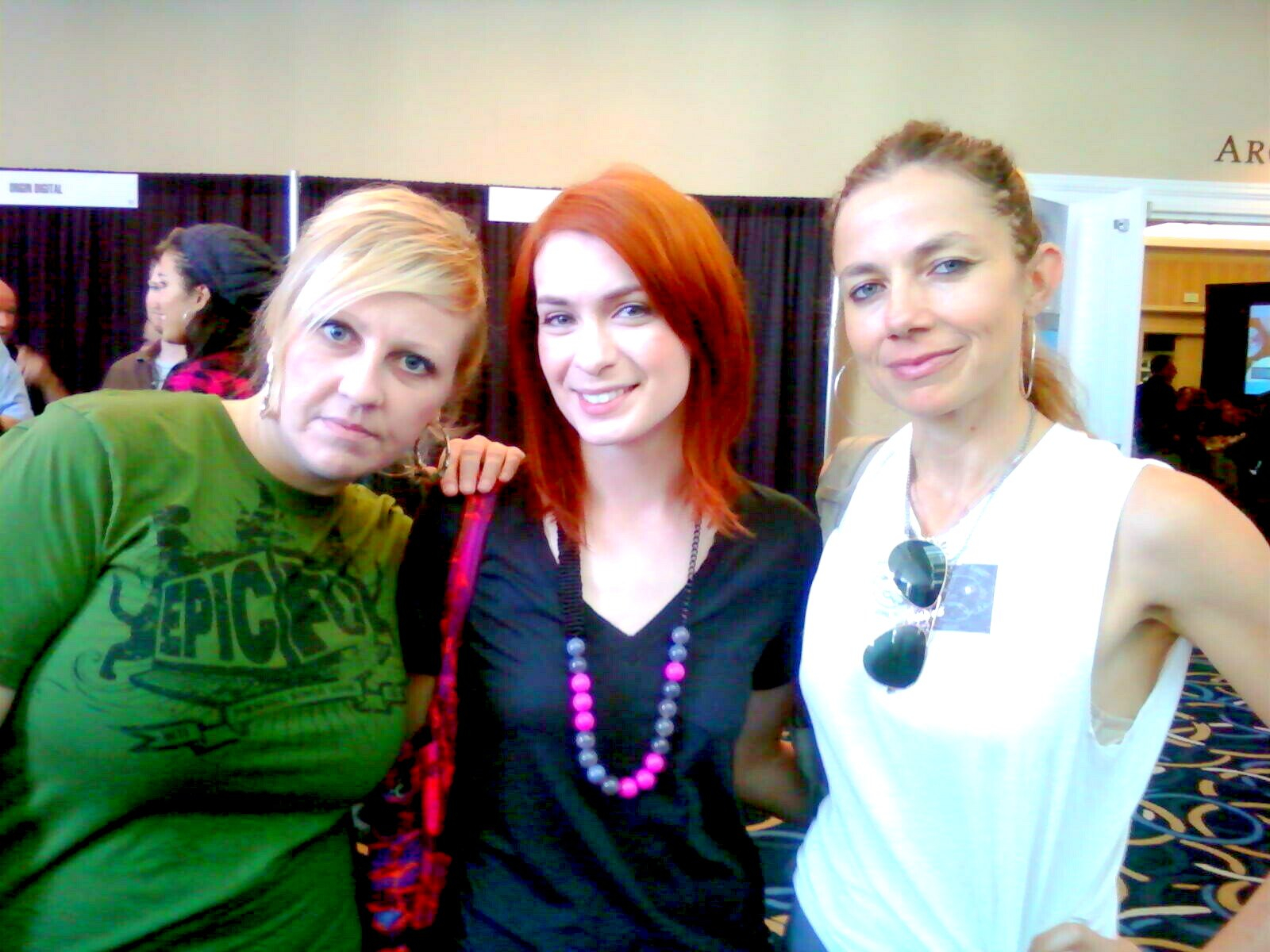 we were all there for the meeting of the International Academy of Web Television -- it was also Digital Hollywood conference.